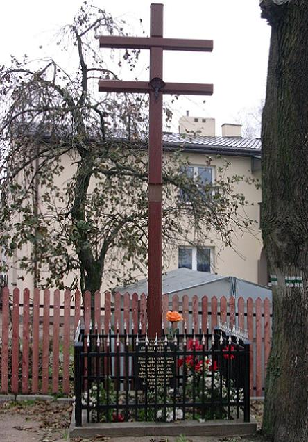 Caravaca Cross in Łomża, Poland.